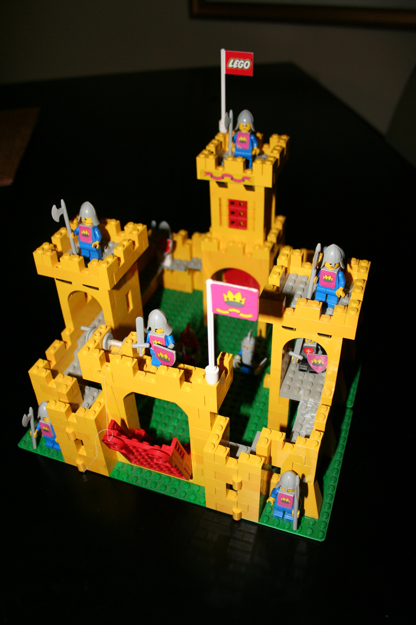 Photo from Porfirio Landeros. Photo (c) Porfirio Landeros, Kwixite Media[1].